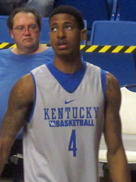 Charles Matthews in the University of Kentucky's 2015 Blue-White scrimmage